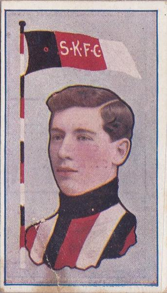 Cigarette card of Bert Pierce from the 1912 Sniders & Abrahams series.